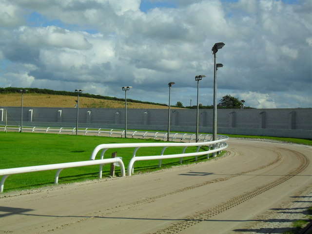 Greyhound Track, Drumbo ParkFrequently referred to as 'Ballyskeagh Dog Track' - Drumbo Park and the idea of a night at the dogs has increased in popularity over the last few years - this being the principal venue in the Greater Belfast region.